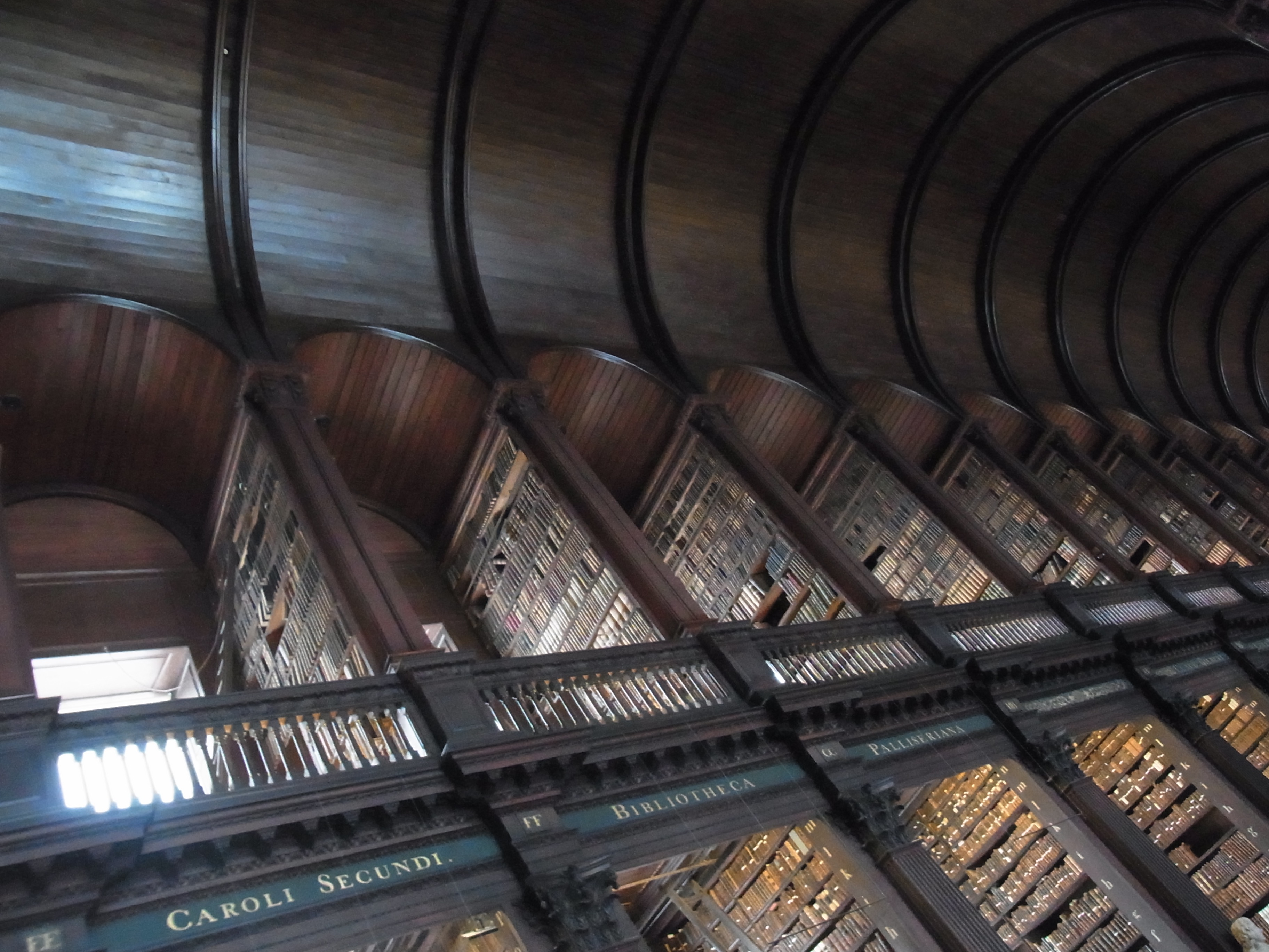 Old Library, Trinity College, Dublin, Dublin, Ireland.